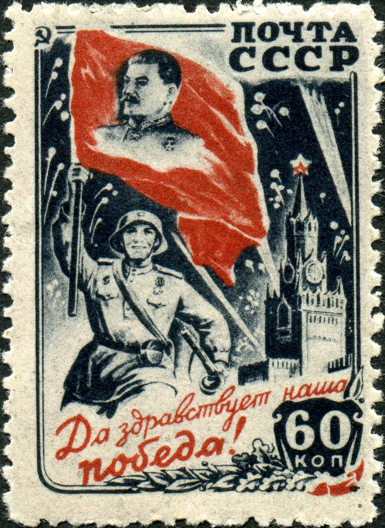 Soviet postage stamp of 60 kopecks. "Long live our Victory", 1946. CPA #1023